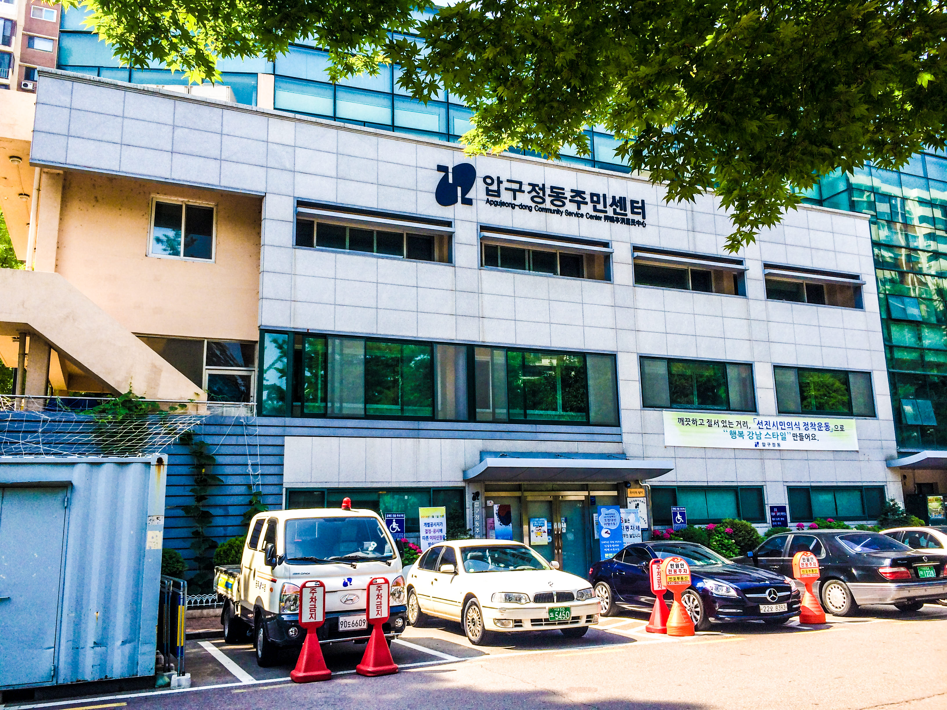 Apgujeong-dong Comunity Service Center (Gangnam-gu)